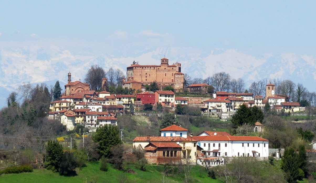 Castel and village of Bardassano from frazione Trinità (Montaldo Torinese, Italy)